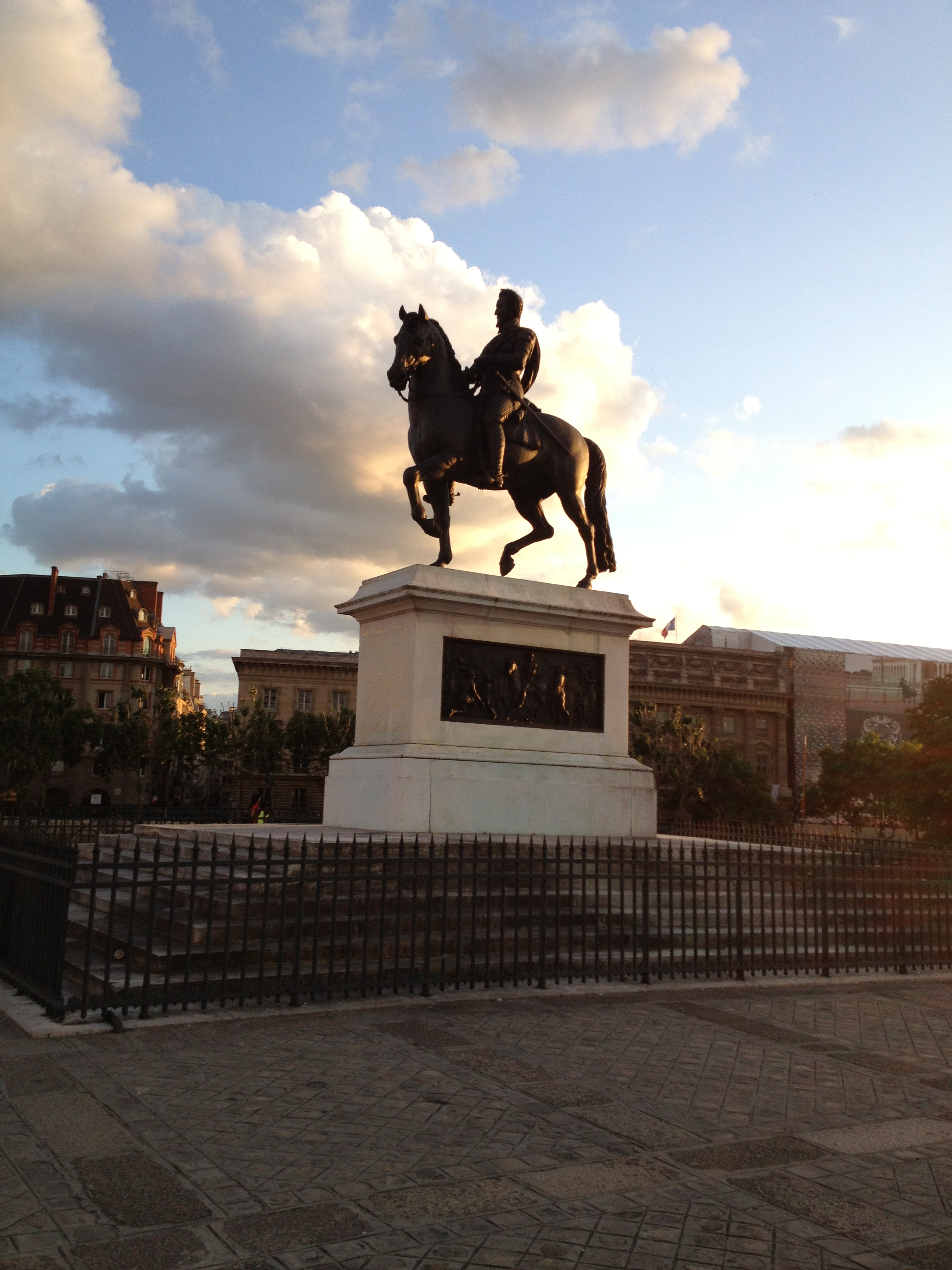 An image of the recreated statue of Henry IV on the Pont Neuf bridge taken in the year 2013.